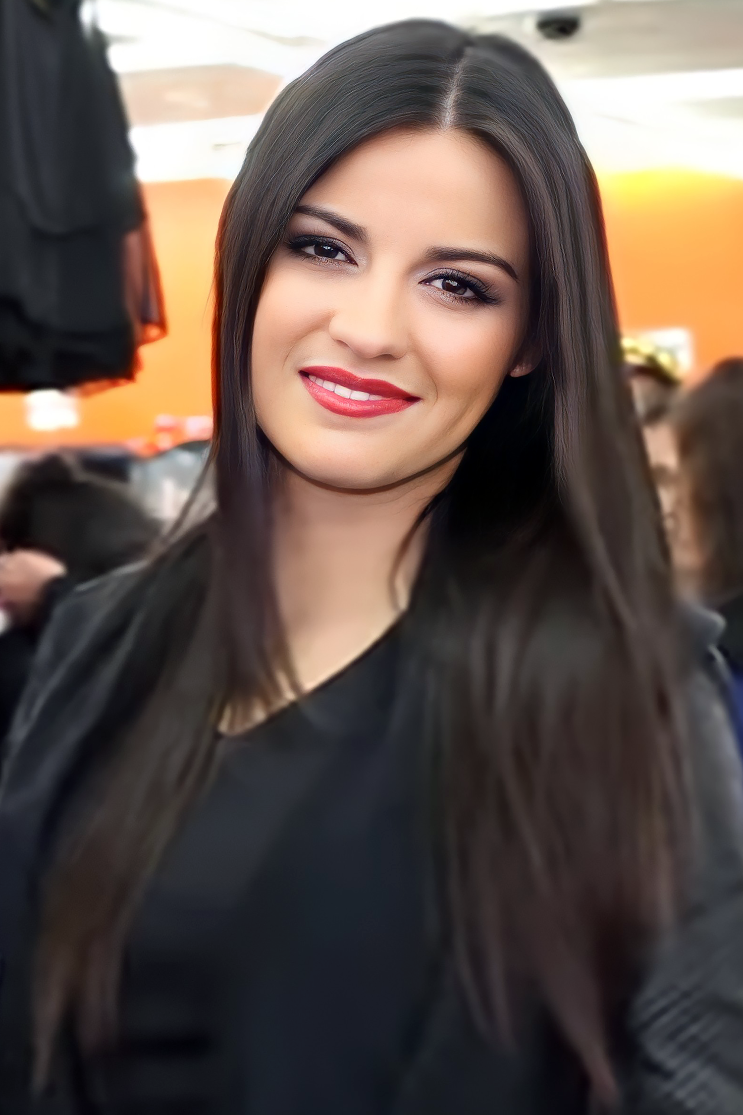 Maite Perroni at the launch of her clothing brand "Maite Perroni Collection" on December 16, 2014.